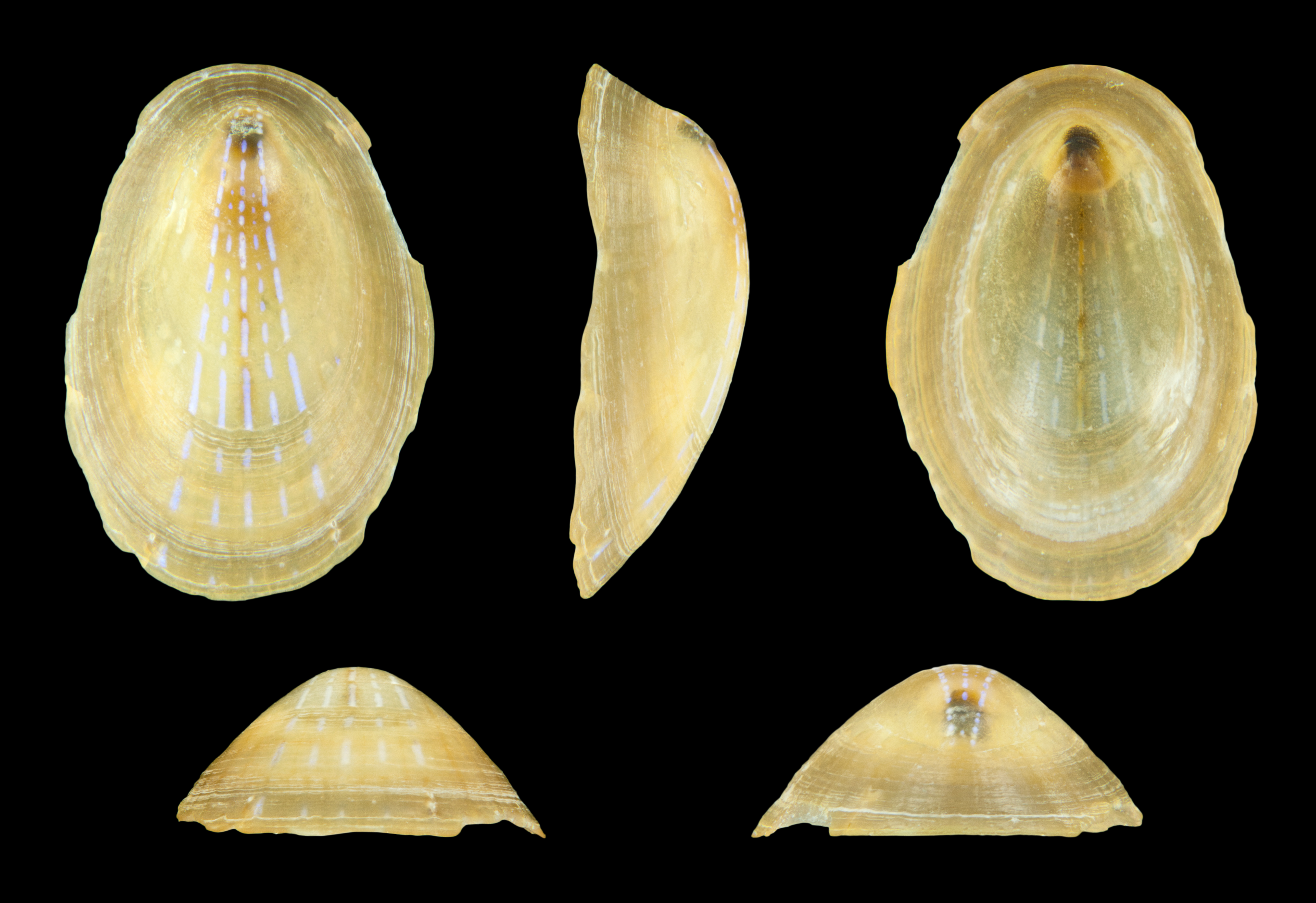 Patella pellucida var. pellucida Linnaeus, 1758, Blue-rayed limpet; Length 1.2 cm; Originating from Brittany, France; Shell of own collection, therefore not geocoded.